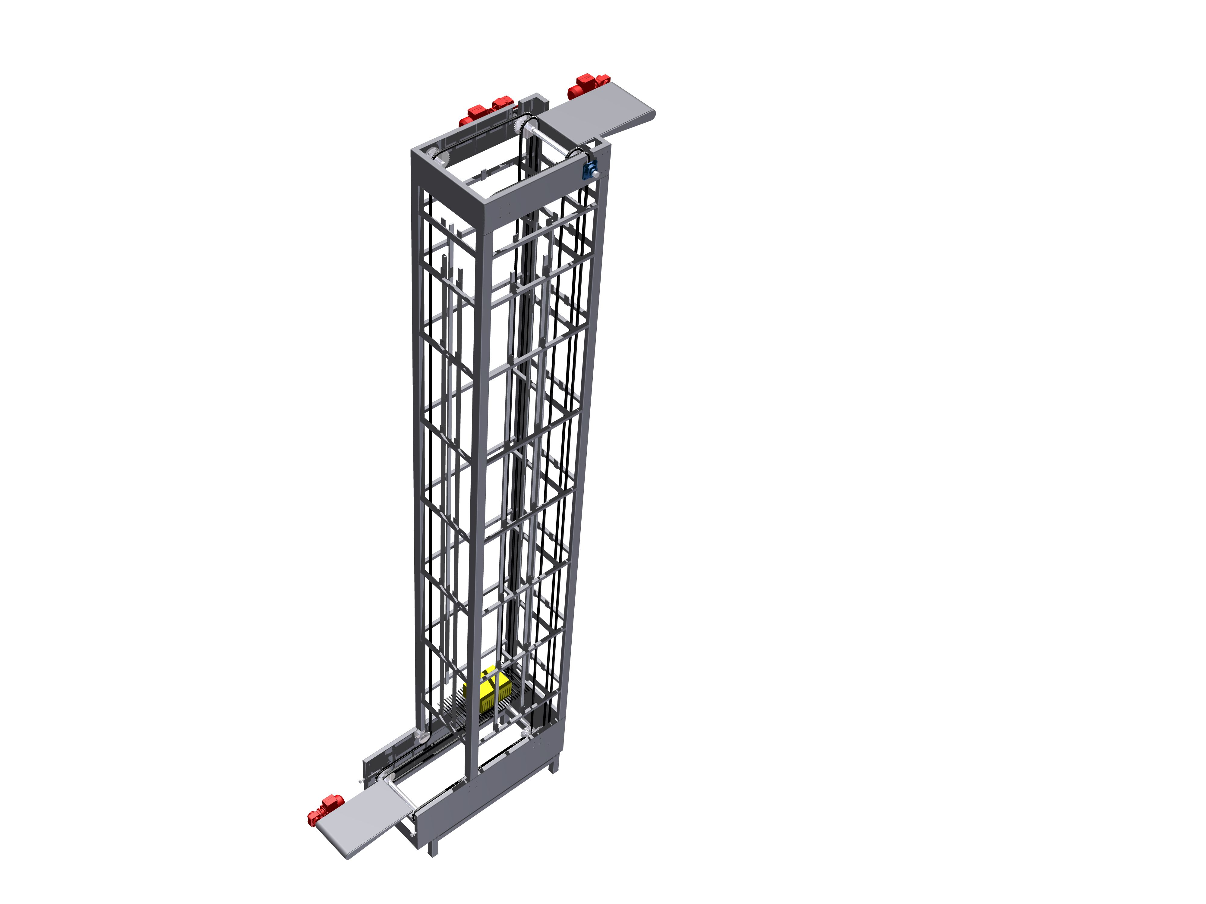 vertical conveyor, continues product lift